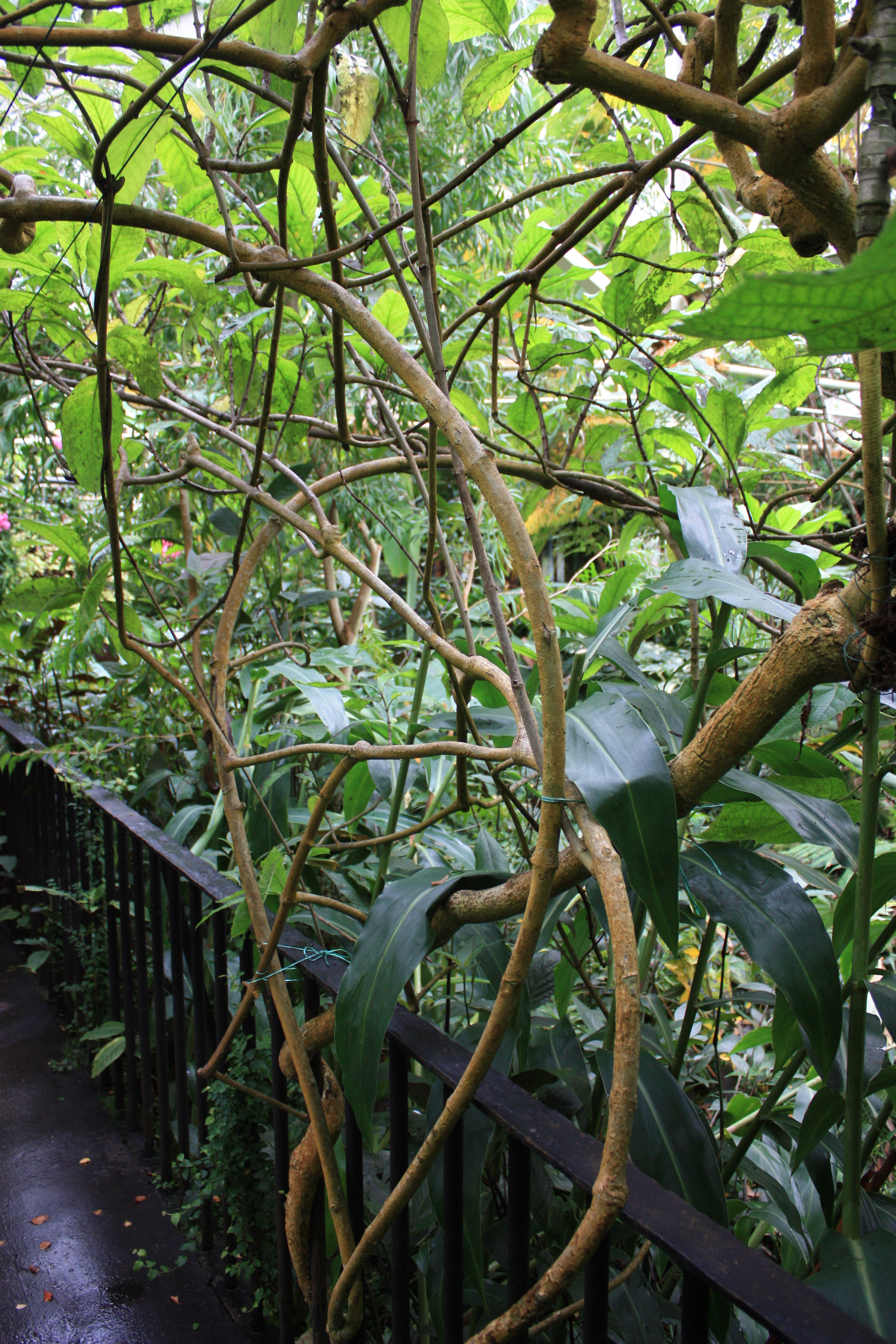 Tropical Ravine, Botanic Gardens, Belfast, Northern Ireland, October 2009